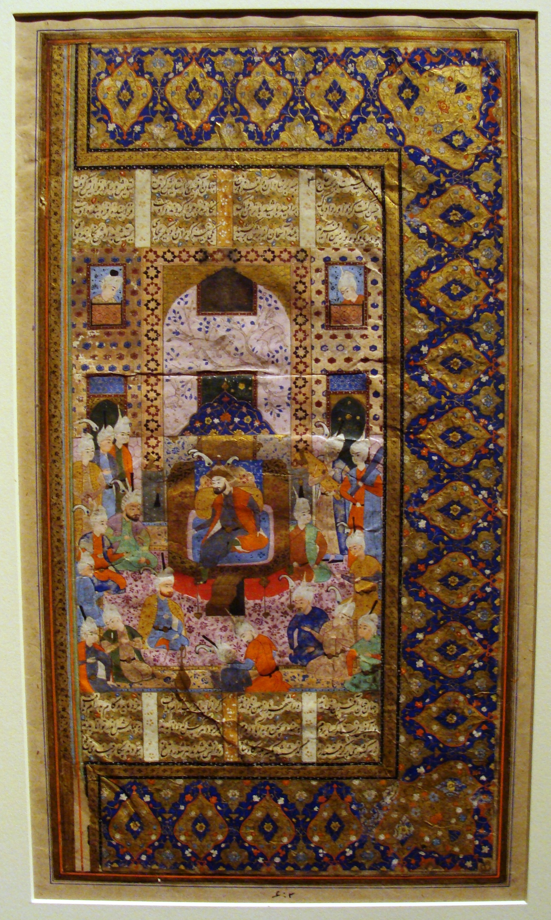 King Luhrasp Enthroned. Shahnameh Manuscript. 1560-1580. Shiraz. Ink. Opaque watercolor and gold on paper.